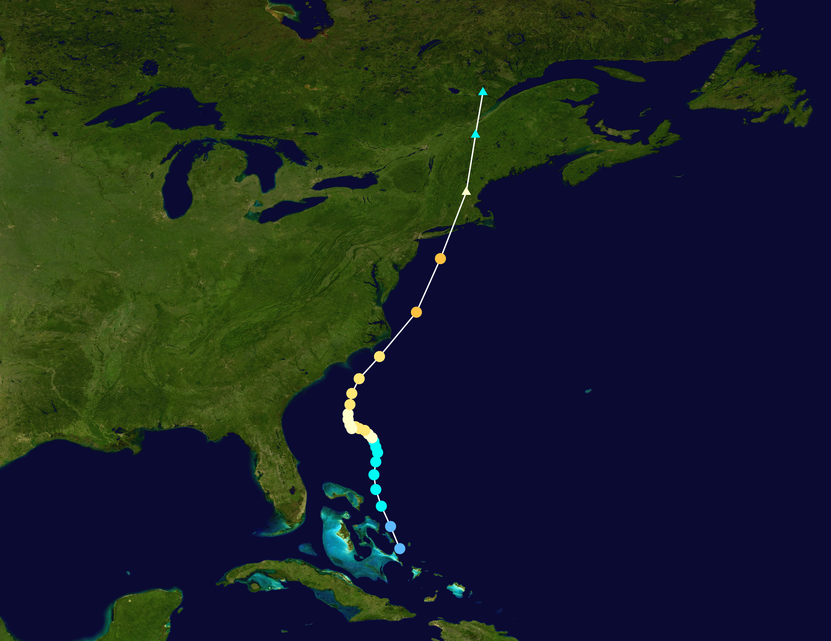 Track map of Hurricane Carol of the 1954 Atlantic hurricane season. The points show the location of the storm at 6-hour intervals. The colour represents the storm's maximum sustained wind speeds as classified in the Saffir–Simpson hurricane wind scale (see below), and the shape of the data points represent the nature of the storm, according to the legend below. Saffir–Simpson hurricane wind scale Tropical depression≤38 mph≤62 km/h Category 3111–129 mph178–208 km/h Tropical storm39–73 mph63–118 km/h Category 4130–156 mph209–251 km/h Category 174–95 mph119–153 km/h Category 5≥157 mph≥252 km/h Category 296–110 mph154–177 km/h Unknown Storm typeTropical cycloneSubtropical cycloneExtratropical cyclone / Remnant low / Tropical disturbance